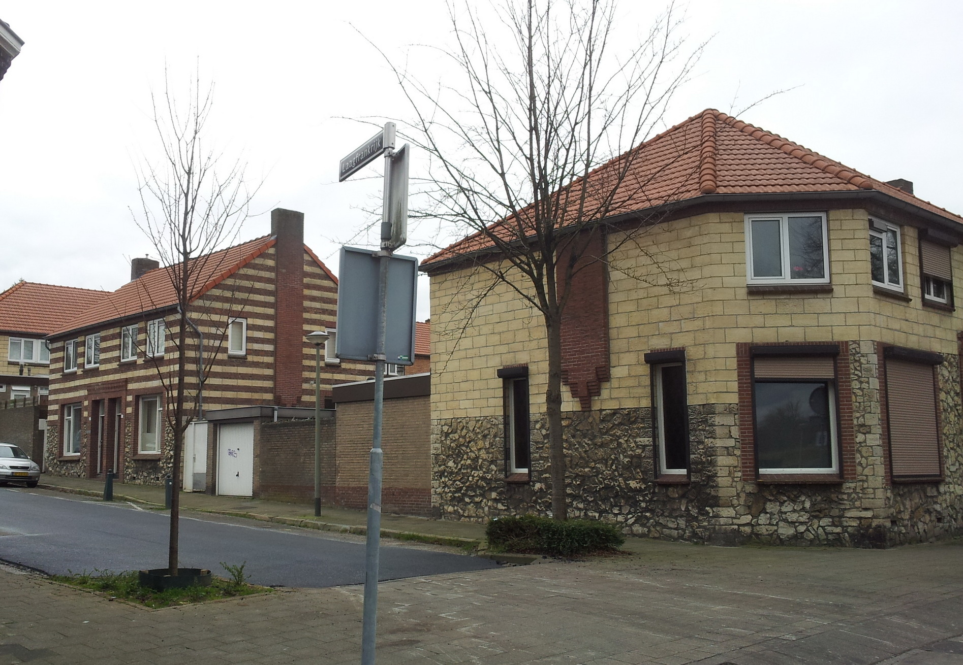 Workers' houses at the corner of Statensingel and Laagfrankrijk, Statenkwartier, Maastricht, the Netherlands.